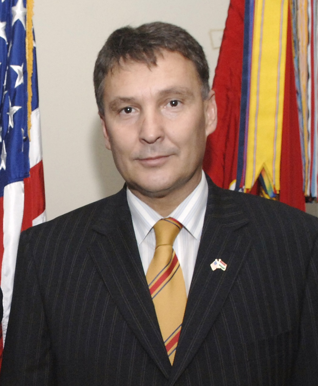 Secretary of Defense Donald H. Rumsfeld (left) and Hungary's Minister of Defense Ferenc Juhasz (right) pose for photographs prior to their meeting in the Pentagon on Oct. 6, 2005. Rumsfeld and Juhasz are meeting to discuss defense issues of mutual interest.